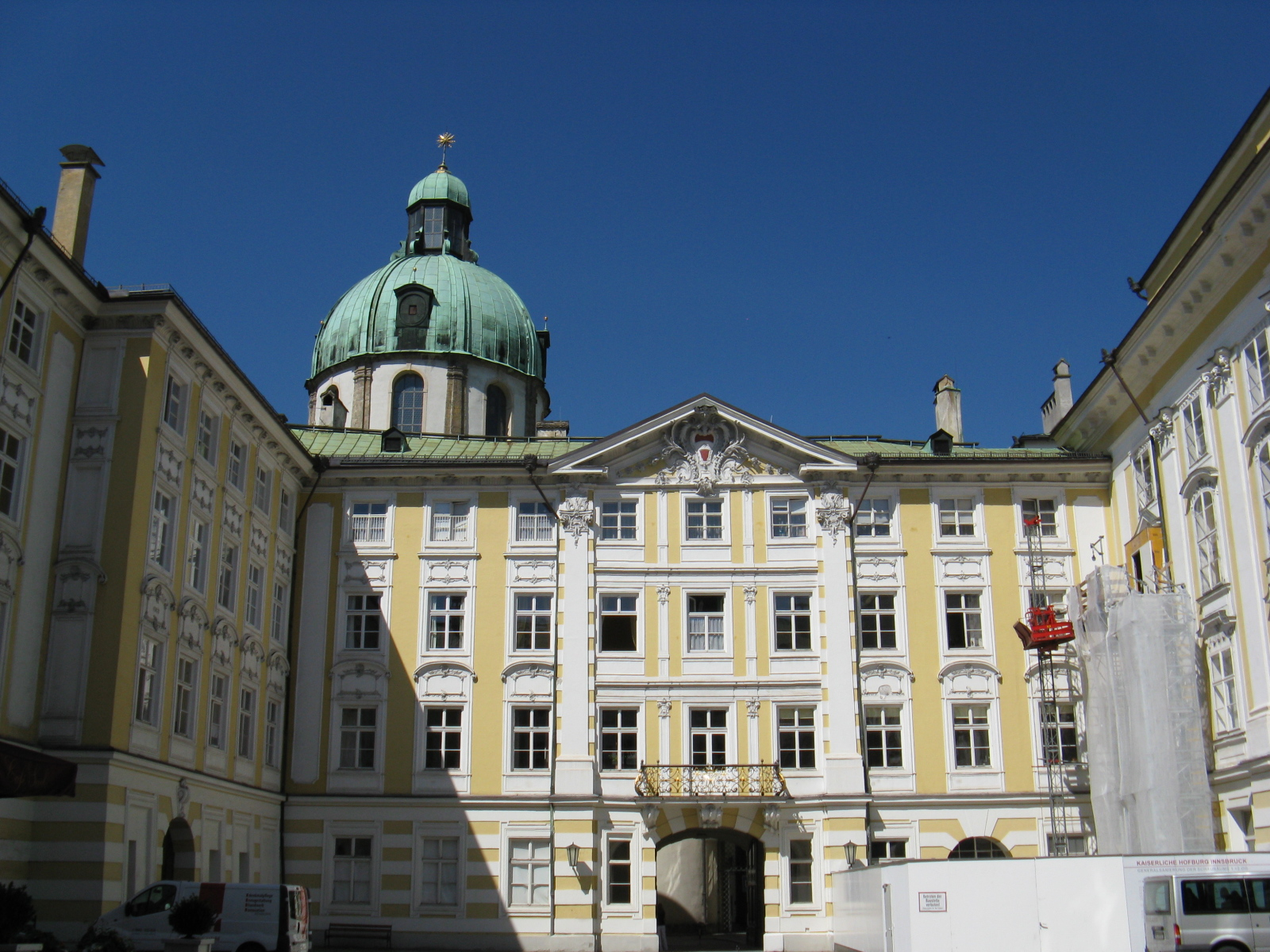 Hofburg (imperial palace) Innsbruck, inner courtyard